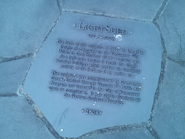 LightShed by Liz Magor, Vancouver, BC